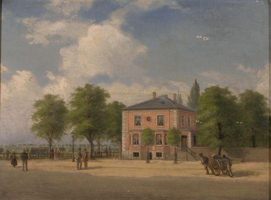 Trianglen (corner of Øster Allé) in Copenhagen, Denmark in 1860